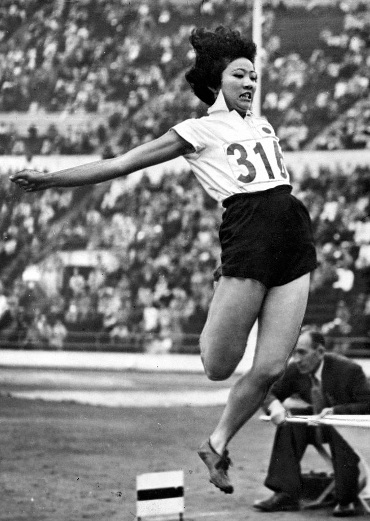 Ayako Yoshikawa of Japan competes in the Women's Long Jump during the Helsinki Summer Olympic Games at the Olympic Stadium on July 23, 1952 in Helsinki, Finland.